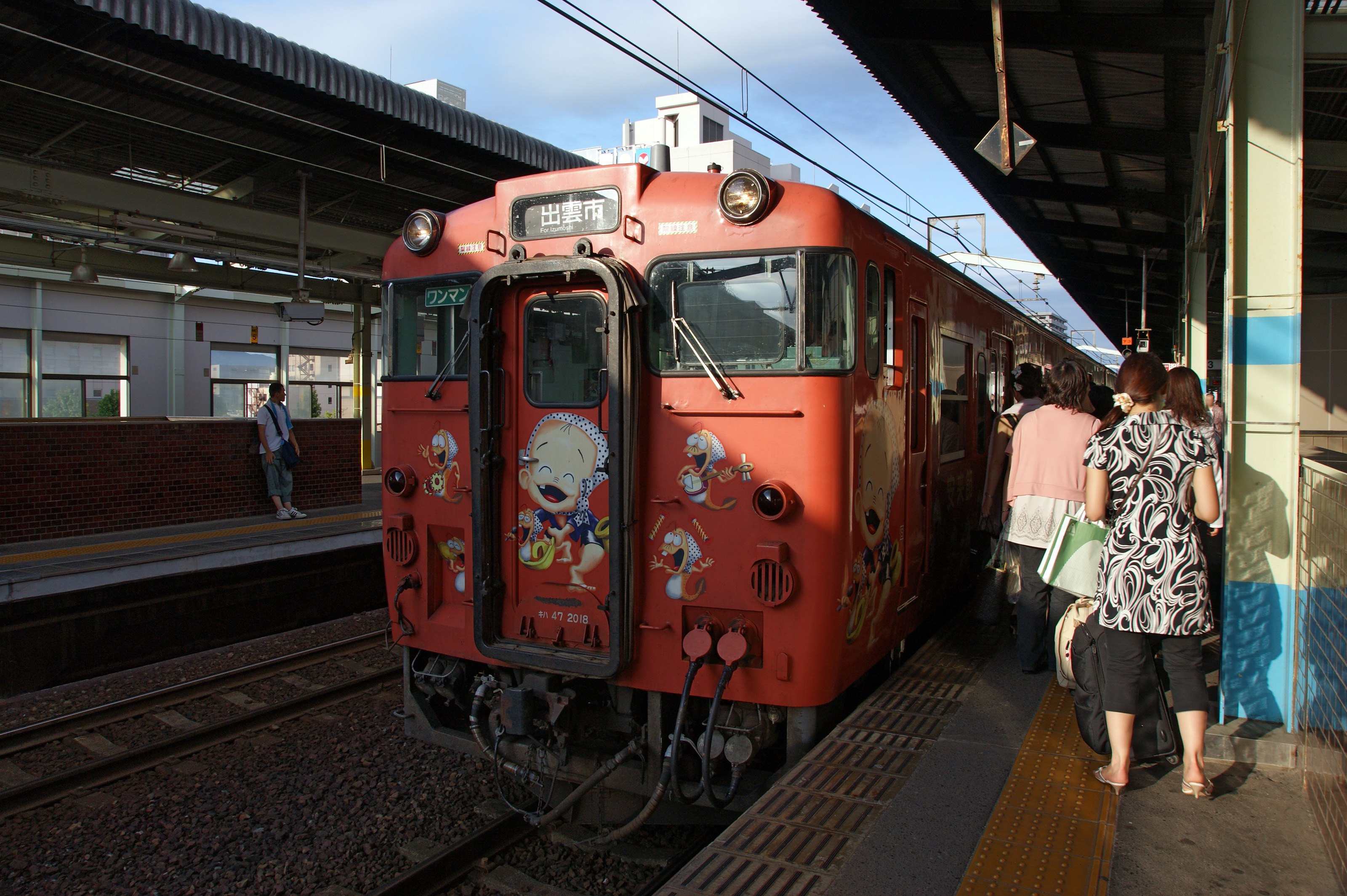 Matsue Station in Matsue, Shimane prefecture, Japan